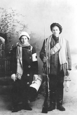 Red soldier Axel Flor with red nurse.